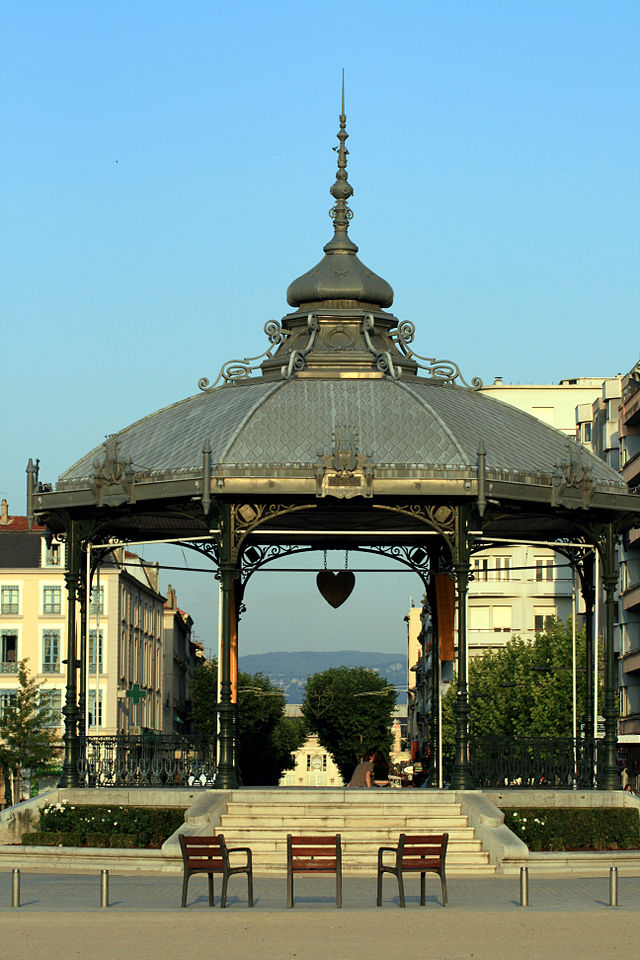 Le Kiosque Peynet en Campo Marte